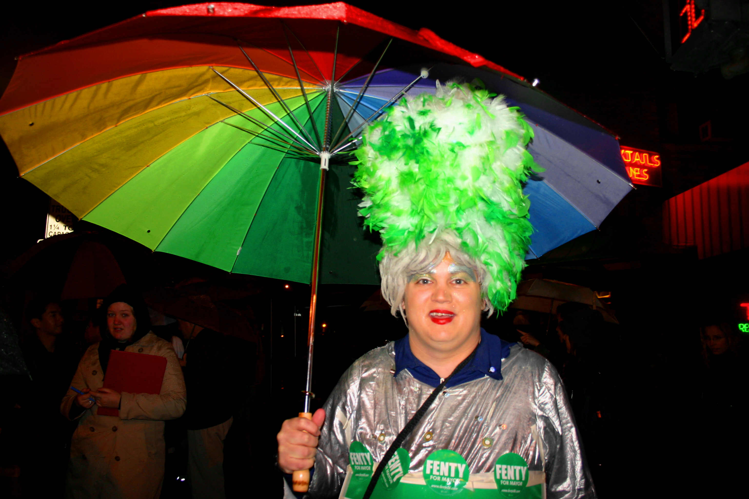 Cookie Buffet at the 17th Street High Heel Race in Washington DC